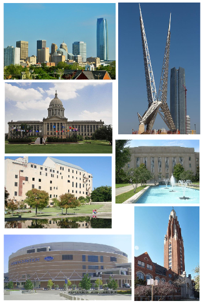 A montage of Oklahoma City, put together using the following files: File:Goldstarlibrary.jpg File:SkyDance Bridge.jpg File:Oklahoma city downtown.JPG File:OKC Ford Center.jpg File:Oklahoma City, City Hall.jpg File:Oklahoma City National Memorial 4854.jpg File:Oklahoma State Capitol (2522081165).jpg